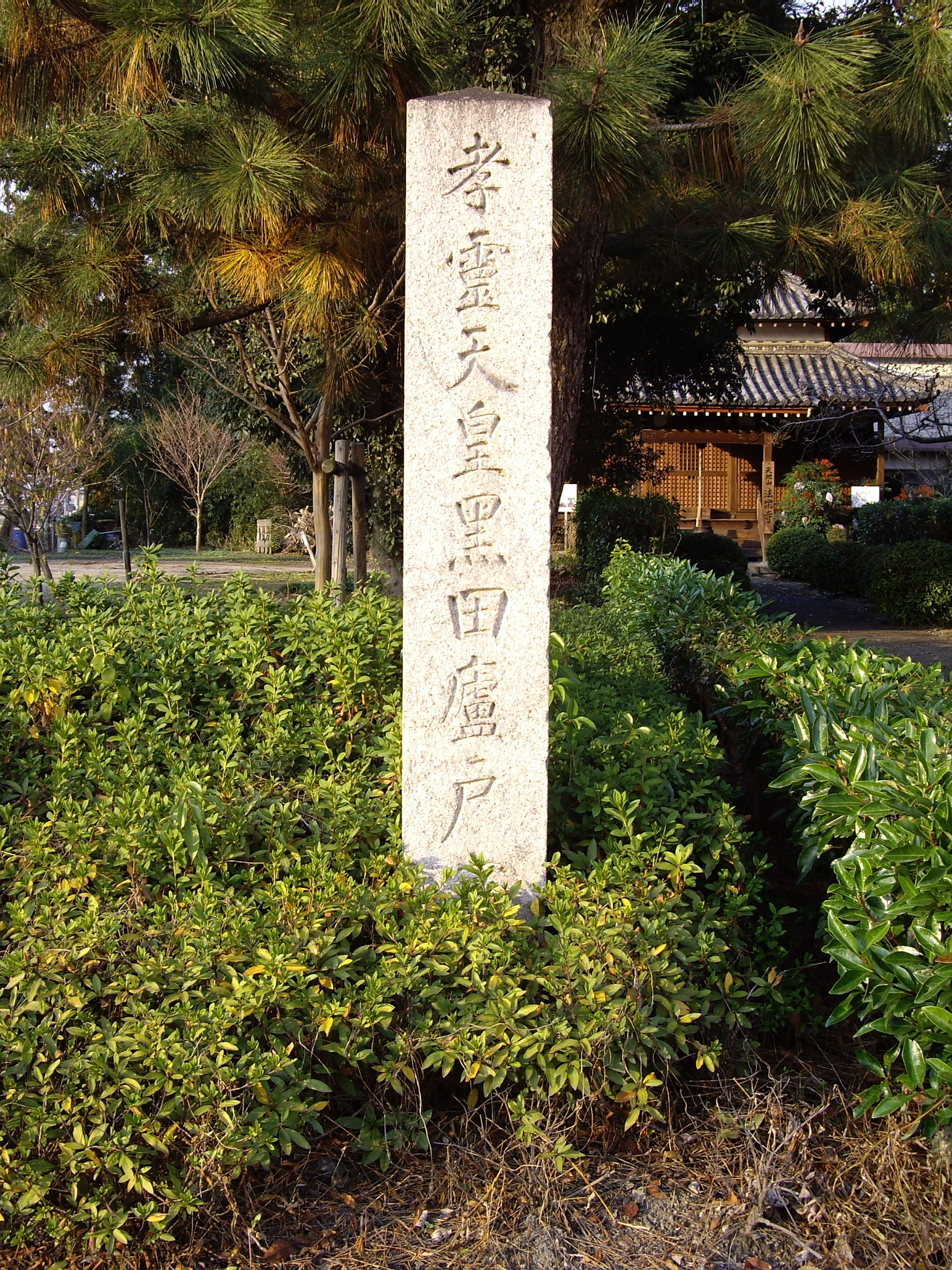 The legendary ruins of Emperor Kōrei's Palace "Kuroda-no-Ioto-no-Miya", in Tawaramoto, Nara Prefecture, Japan